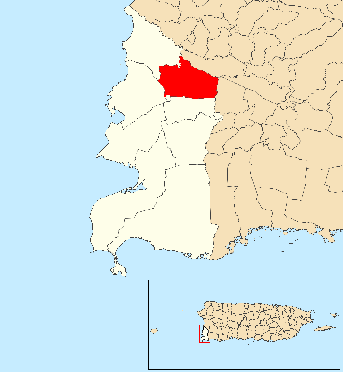 Bajura, Cabo Rojo, Puerto Rico locator map